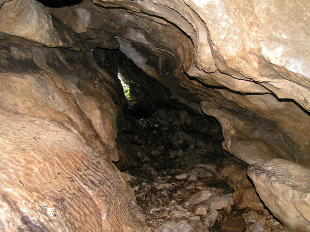 Inside Giant's Hole. Looking back towards the entrance. The first 300m of Giant's Cave (to the 6m Garland's Pot) can be explored without specialist equipment. A "trespass fee" of £2 is payable via an honesty box near Peakshill Farm to visit the cave, which lies on private land. for more information.